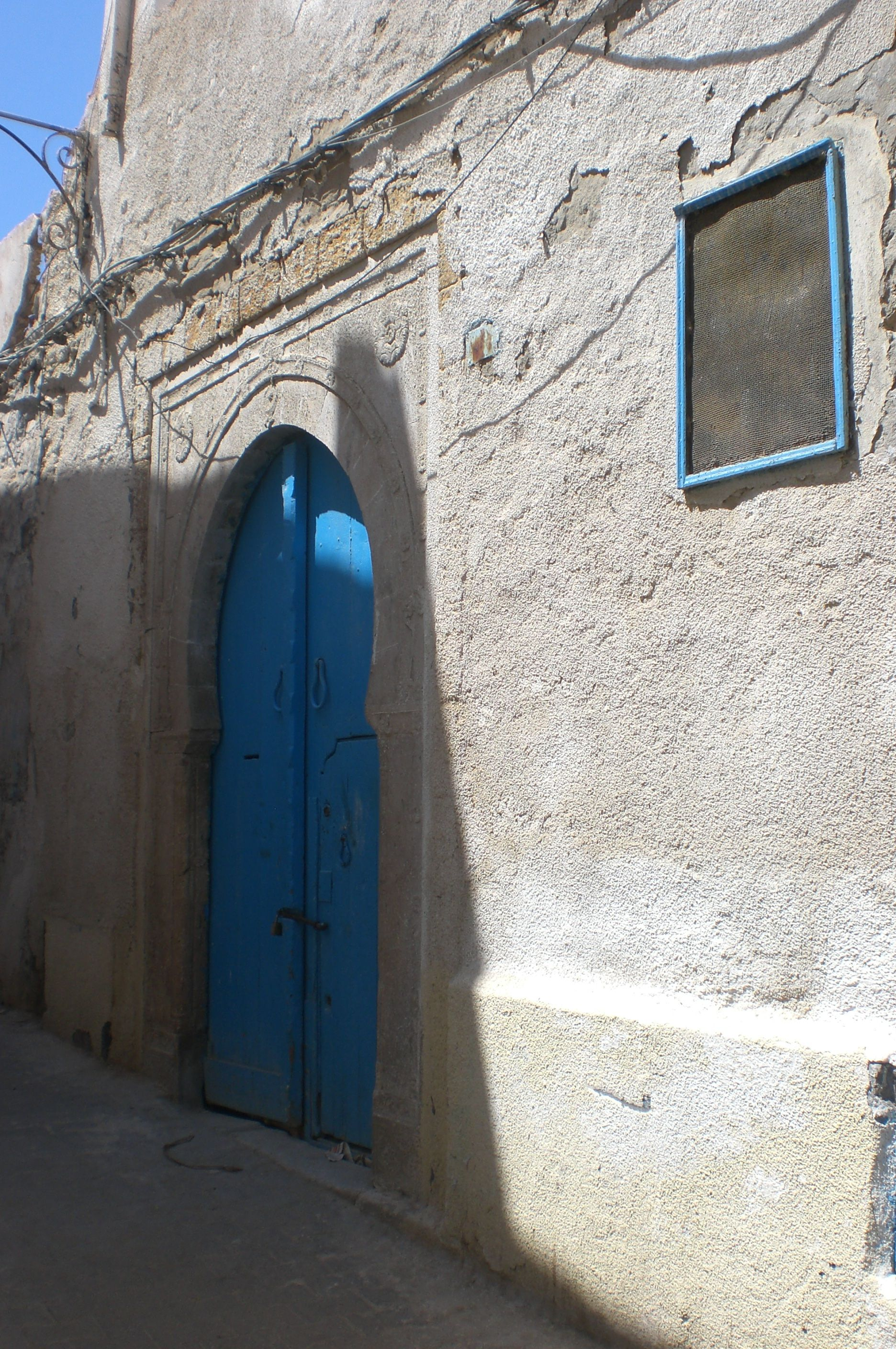 the entree of Merdersa Habibia Soghra-Tunis